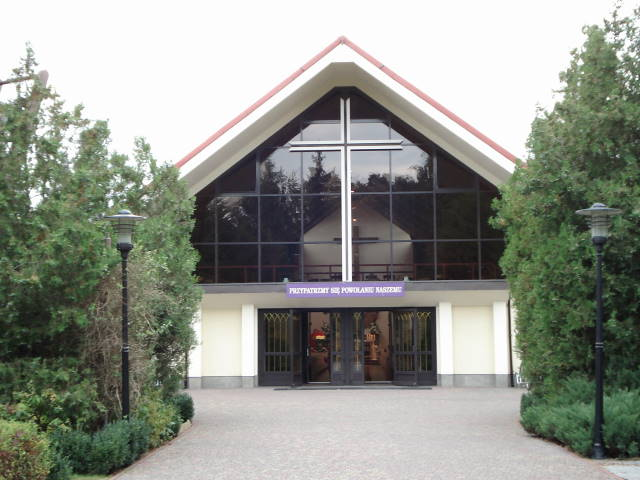 Parish Church of Our Lady of Consolation in Poznań